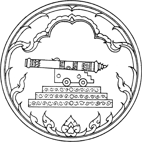 Provincial seal of Pattani province.